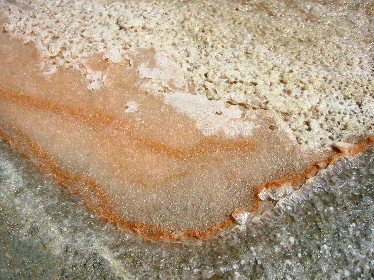 sea salt